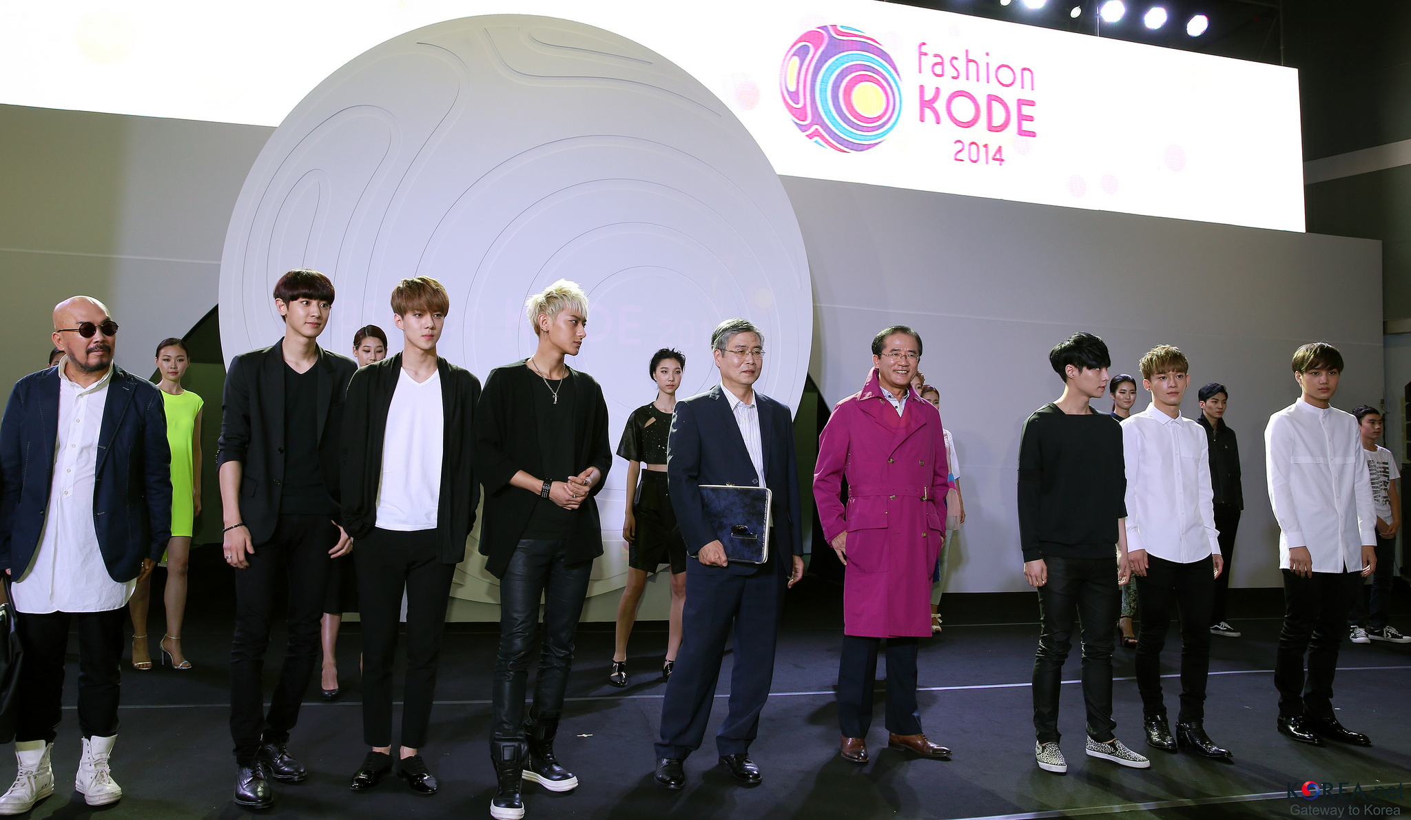 Fashion Kode 2014 July 16, 2014 aT Center, Seocho-gu, Seoul Ministry of Culture, Sports and Tourism Korean Culture and Information Service ( Official Photographer: Jeon Han This official Republic of Korea photograph is licensed as free content, so while restrictions such as personality or privacy rights may apply, in general, manipulations are allowed. If you want a photograph without a watermark, you may ask via Flickr e-mail. 패션코드 2014 2014-07-16 aT 센터 문화체육관광부 해외문화홍보원 코리아넷 전한